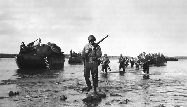 Troopers of the 112th Cavalry wade ashore at Arawe as Marine LVTs carry in supplies on 15 December 1943 - Operation Dexterity